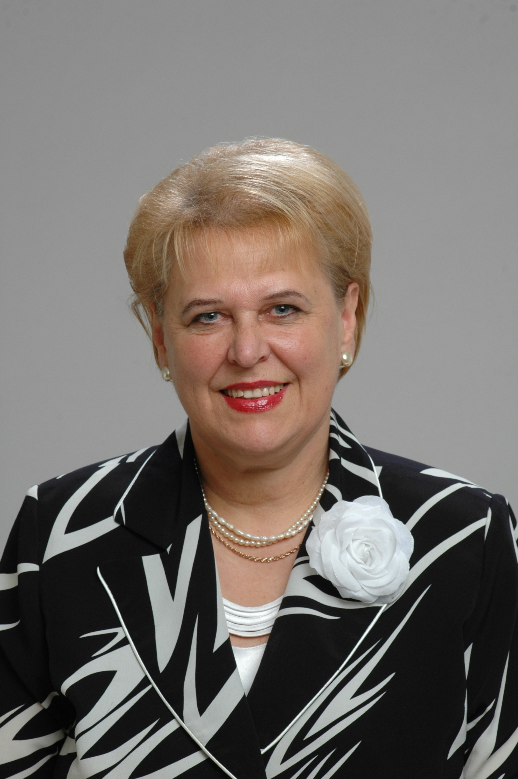 Deputy of the 9th Saeima Baiba Rivža